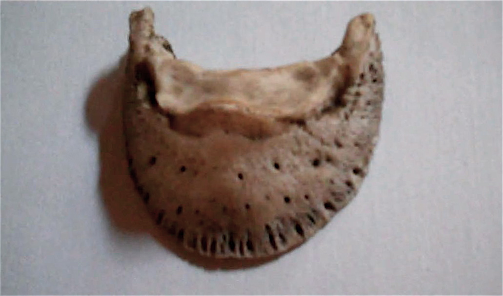 The coffin bone of a horse (third distal phalanx) sometimes called the "pedal bone". Corresponds to the human fingertip, internal skeletal structure of the hoof. Front view